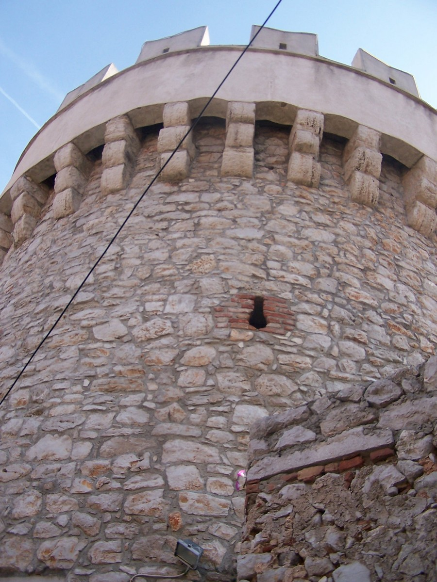 Tower "Kula" in Veli Losinj